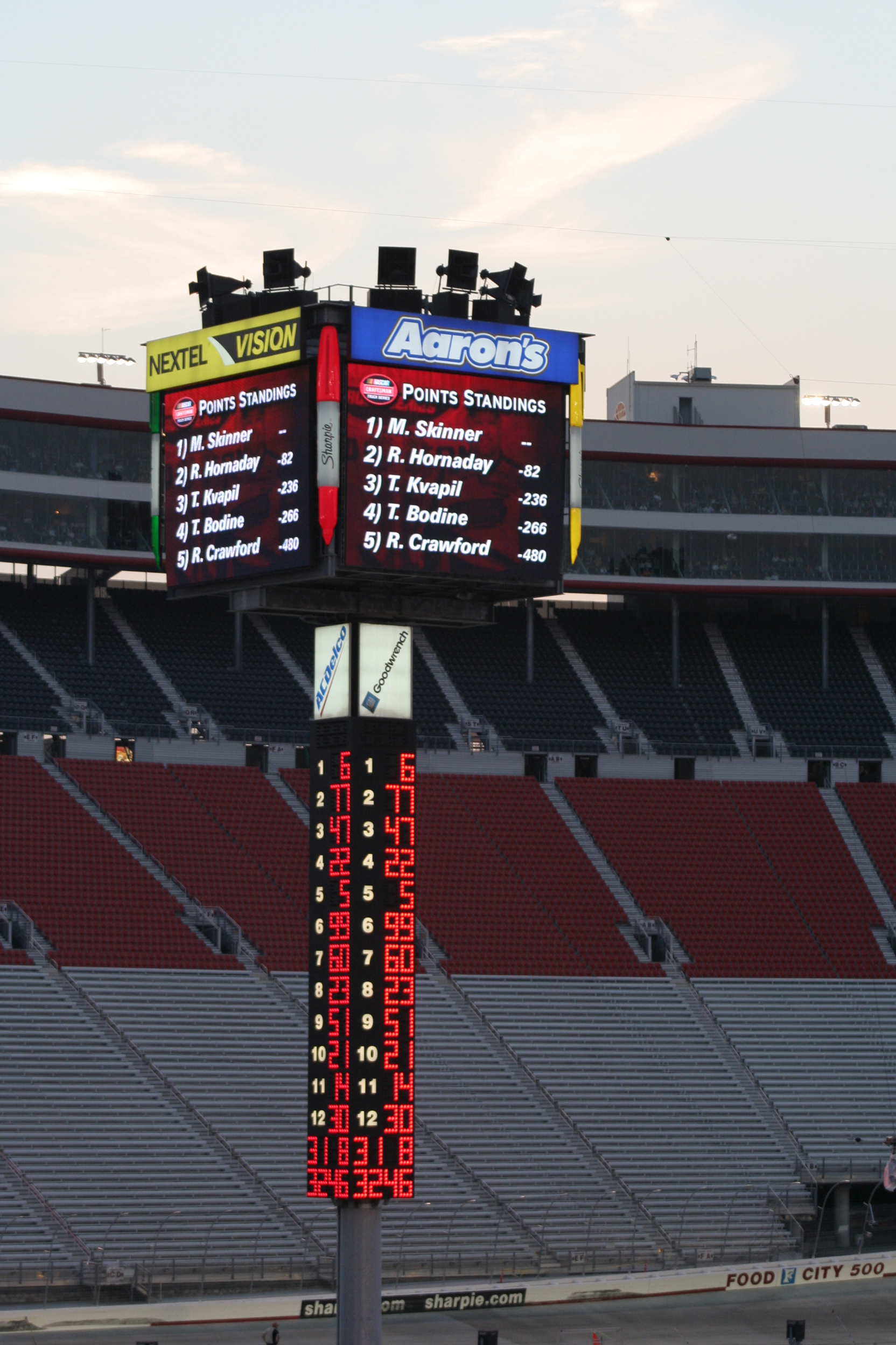 the scoring pilon at Bristol Motor Speedway in August 2007